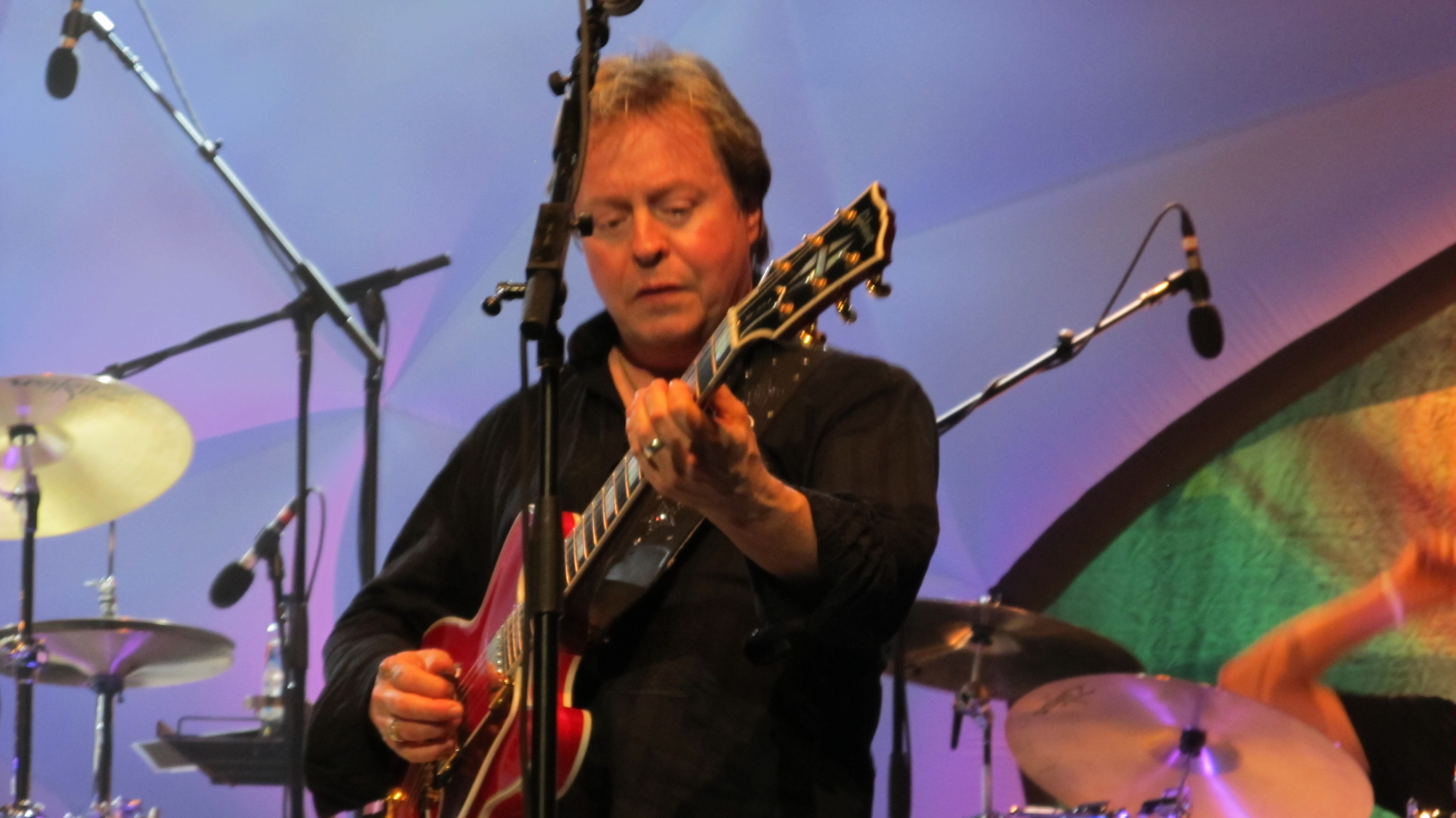 Rick Derringer concert in Paris June 26, 2011 : Ringo Starr and his All-Starr Band